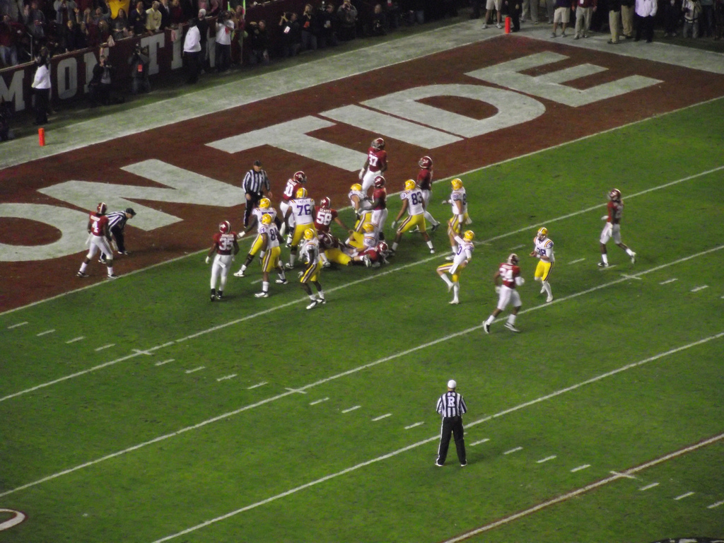 Drew Alleman of the LSU Tigers after kicking a 19-yard field goal to tie the game against the Alabama Crimson Tide 3–3 at the end of the first half at Bryant–Denny Stadium in Tuscaloosa, Alabama.